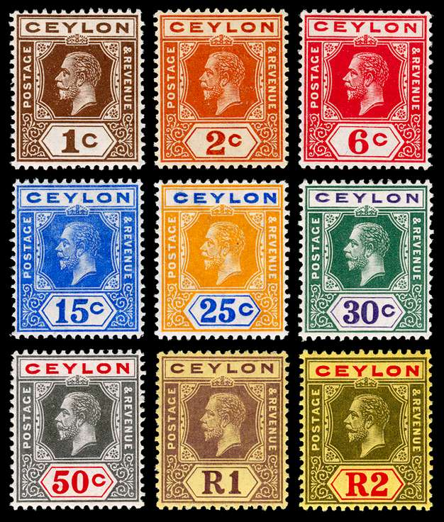 British stamps for Ceylon (now Sri Lanka) showing King George V.